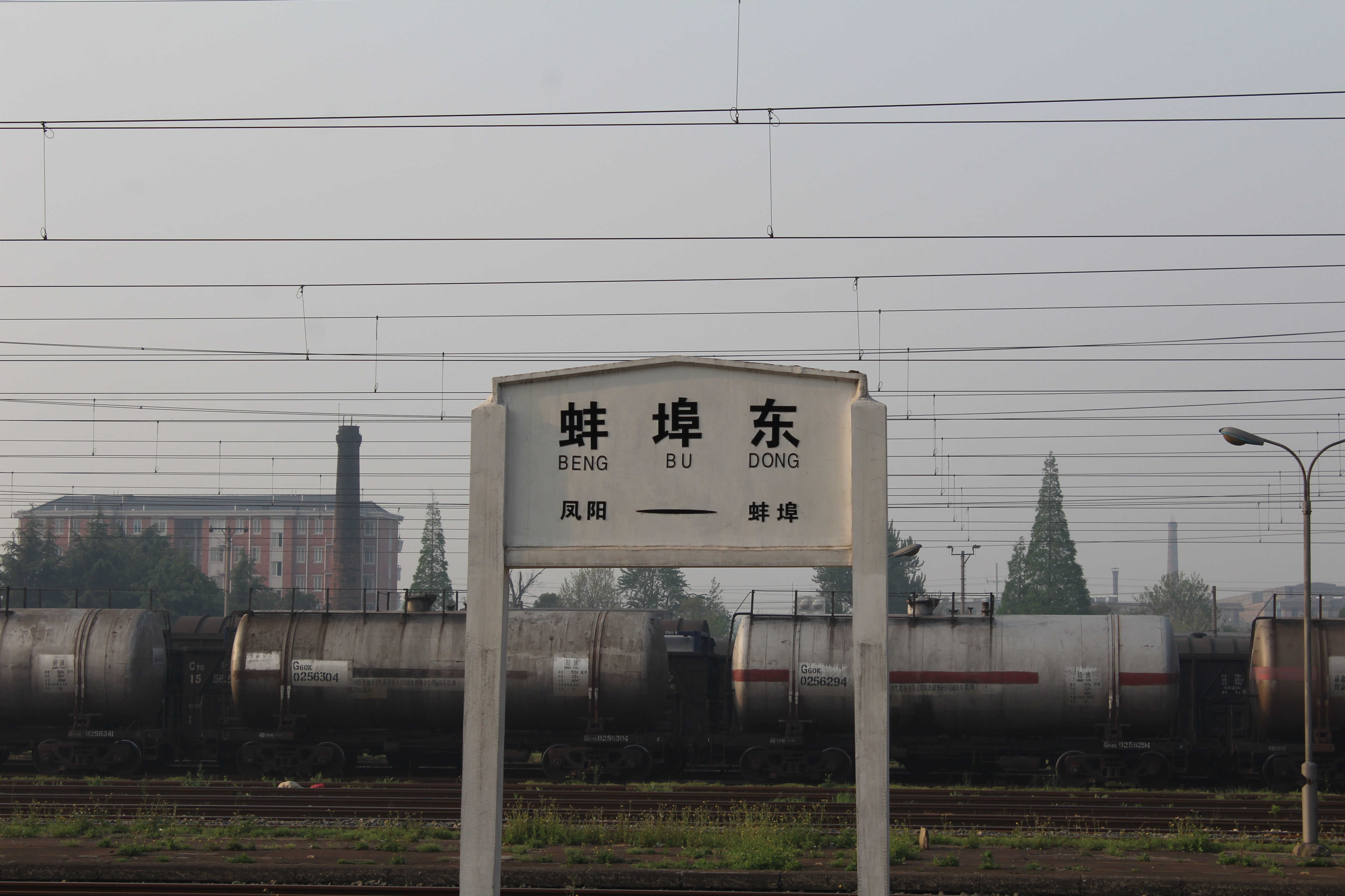 中文（中国大陆）: E.Bengbu Railway Station Plate